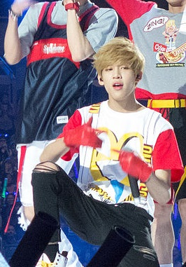 Bambam performing at KCON 2015 in Los Angeles.